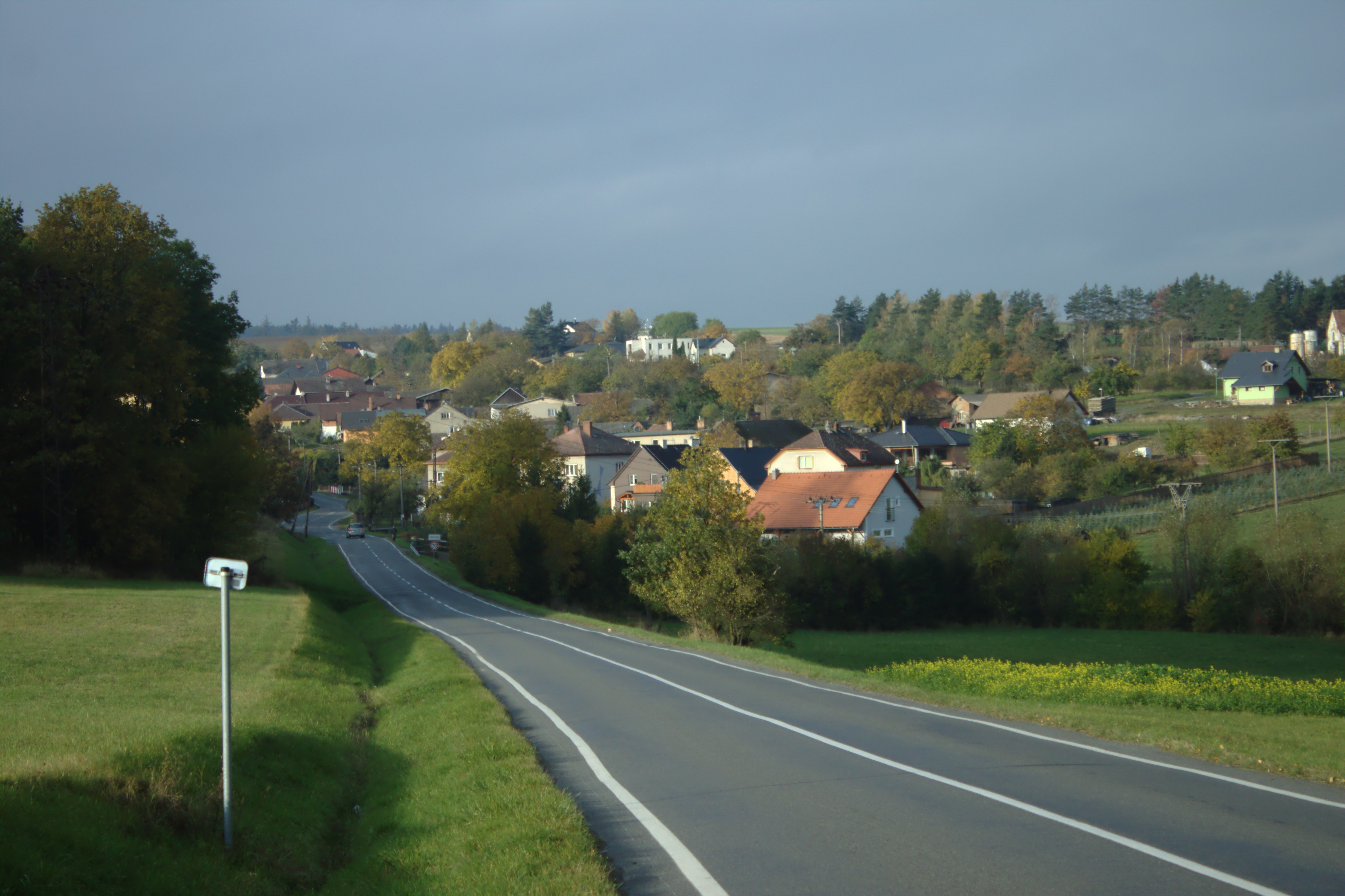 View of the village of Mikolajice from south, Moravian-Silesian Region, CZ